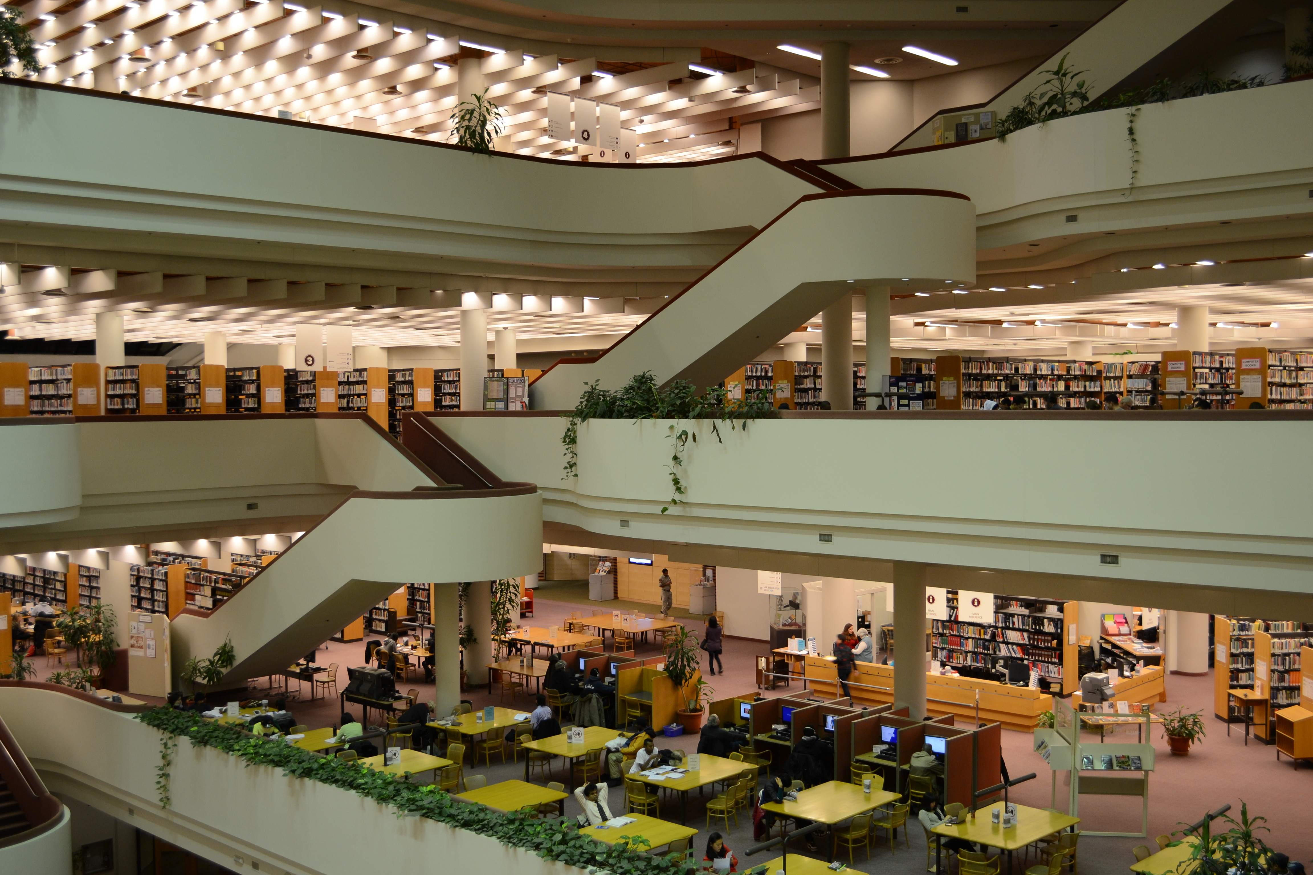 Toronto Reference Library